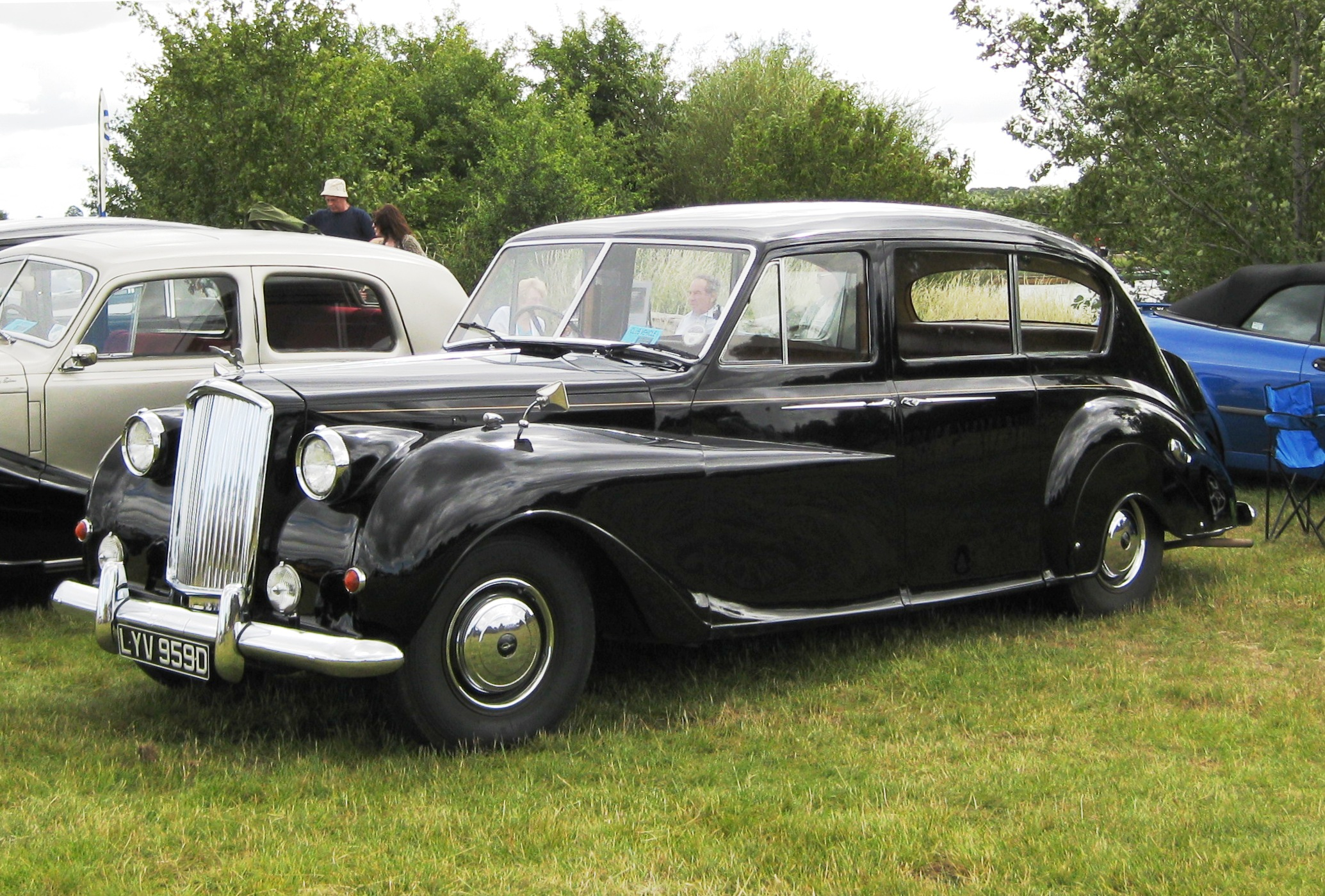 Princess Limousine license plate 1966